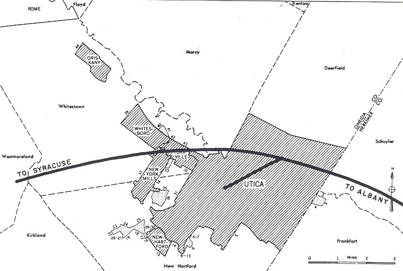 Interstates in today's terms I-90 I-790